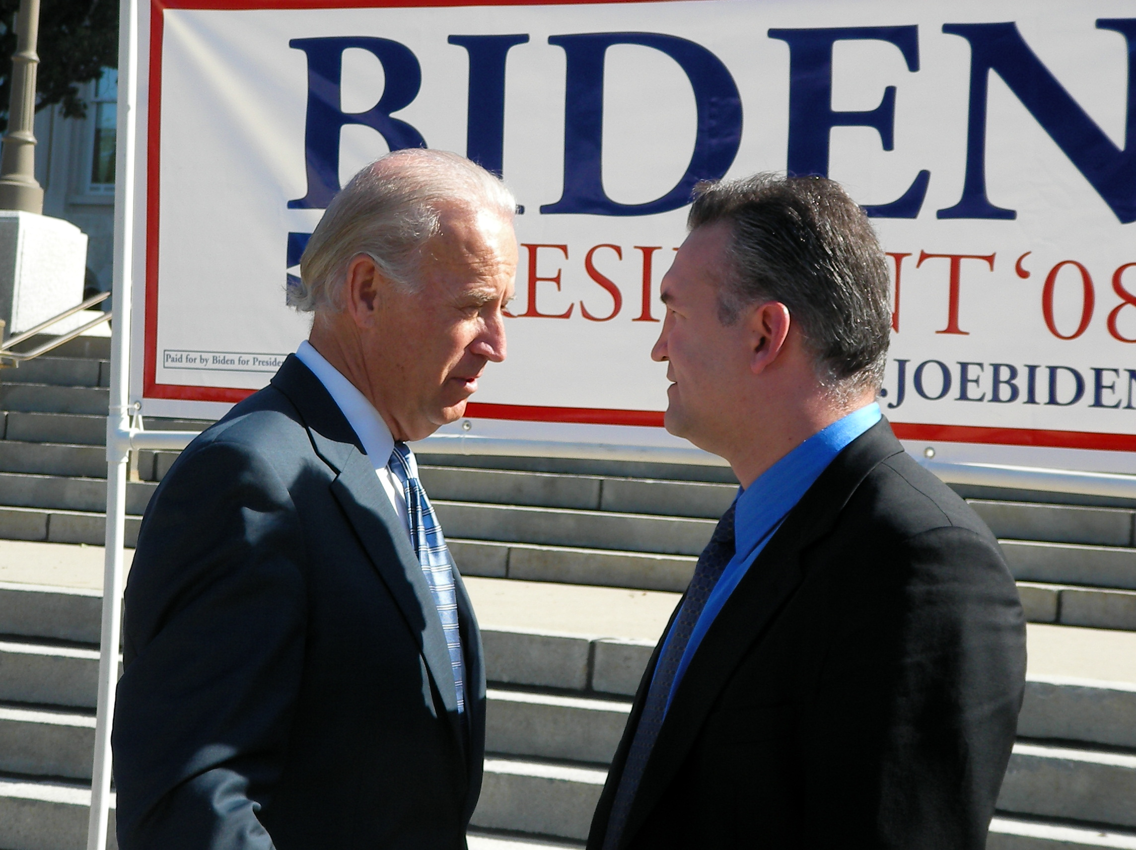 Sen. Joe Biden, D-Del., talks with Iowa House Majority Leader Kevin McCarthy Sept. 13 at the Iowa Statehouse. McCarthy endorsed Biden, becoming the eighth Iowa lawmaker to do so.